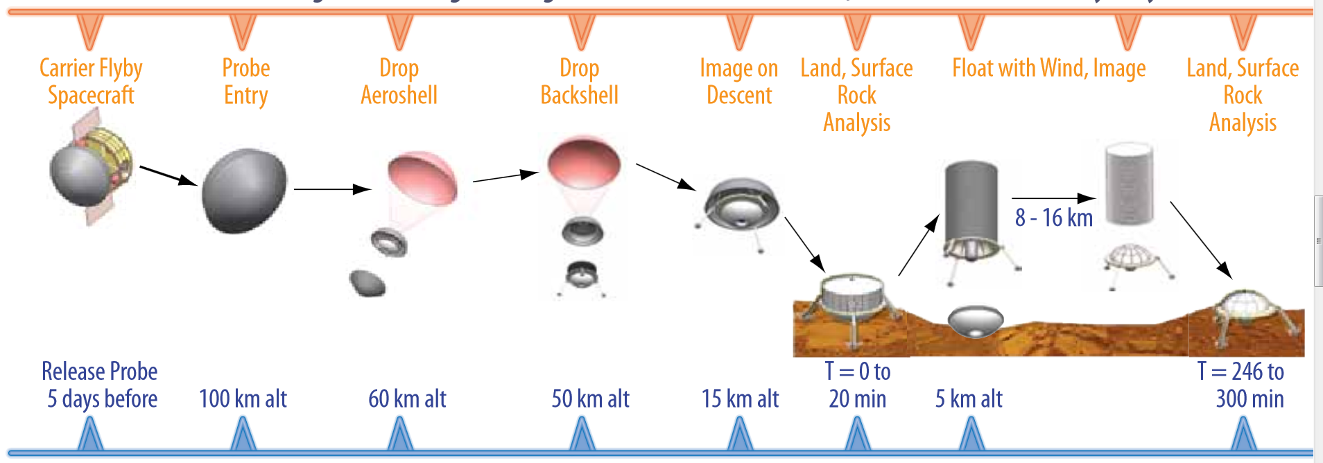 Venus mobile explorer : probe timeline